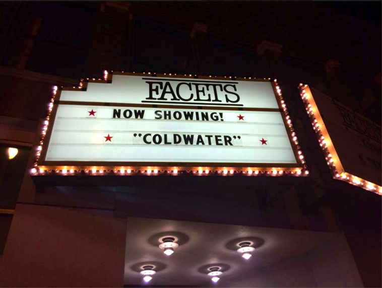 CWtheatricalreleasechicago